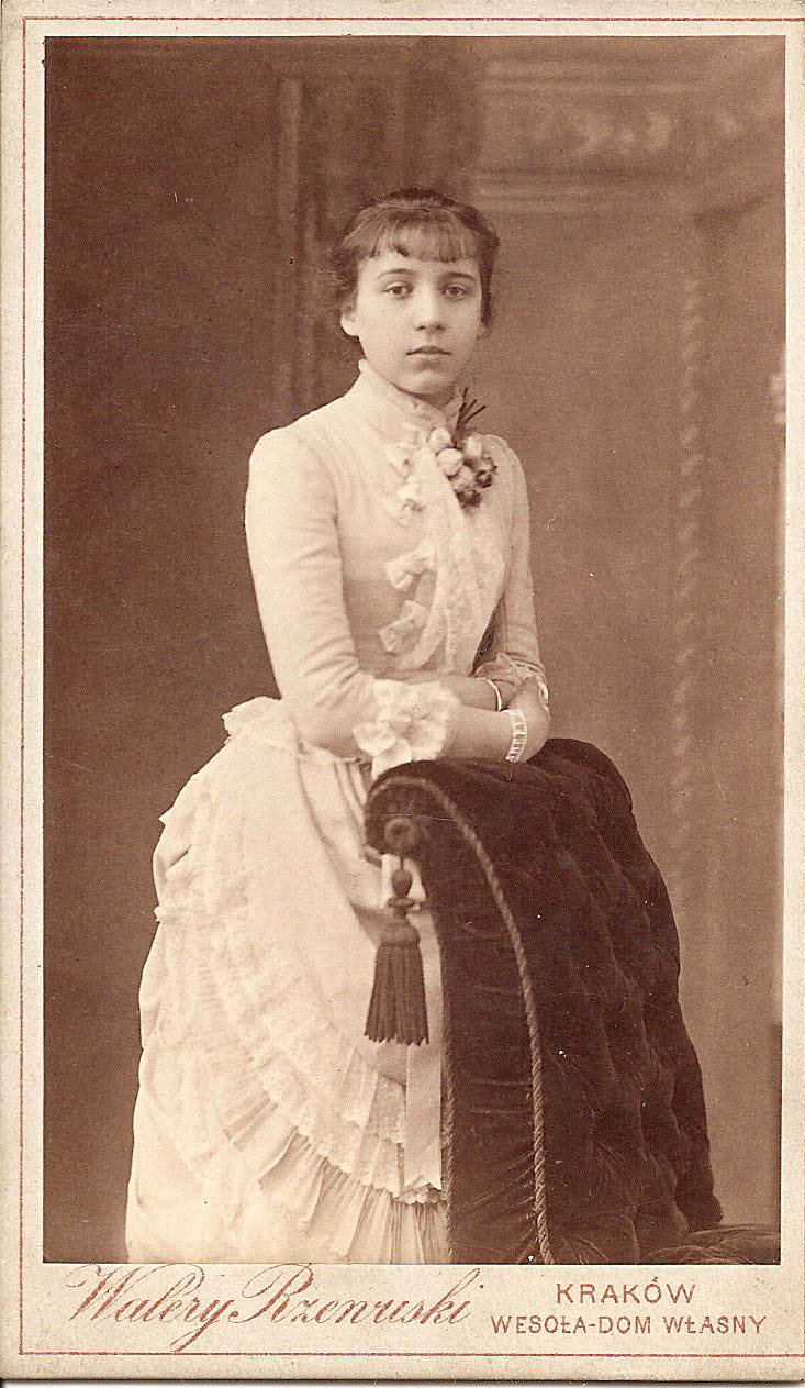 'Young Lady in Kraków', possibly Anna Vesnicky Polášek (surname through adoption) from Kromieryż (Kremsier now Kroměříž) who became the first wife of Andrzej Kusionowicz but who died in Cieszyn of tuberculosis in 1894 at only thirty years of age - photograph taken at the studio of Walery Rzewuski, Wesoła - dom Własny, in Kraków.The Scotch Mist Gallery contains photographs of historic buildings, monuments, memorials and people of Poland.